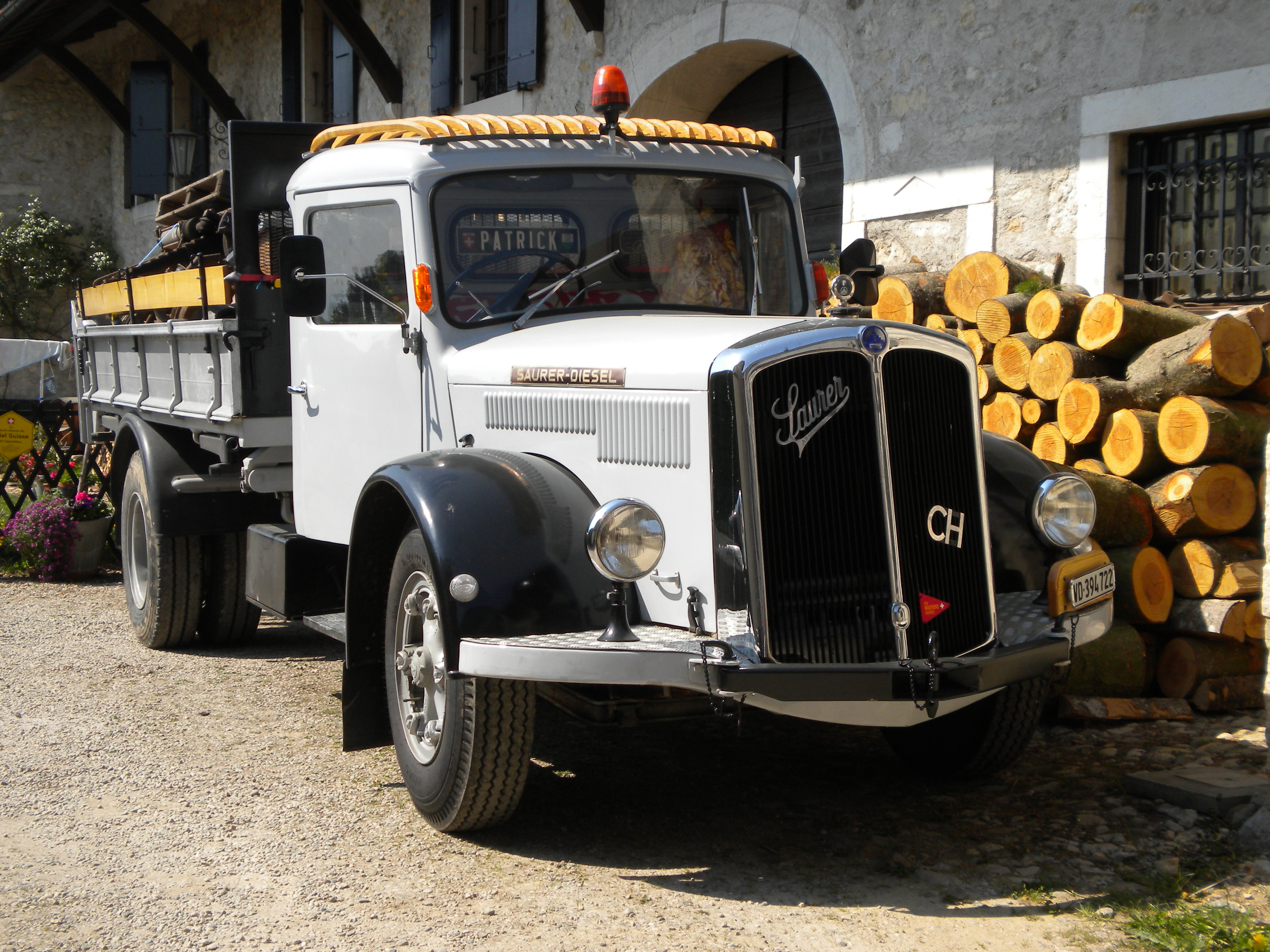 Saurer lorry from 1962, seen in Arzier, Canton Vaud, Switzerland